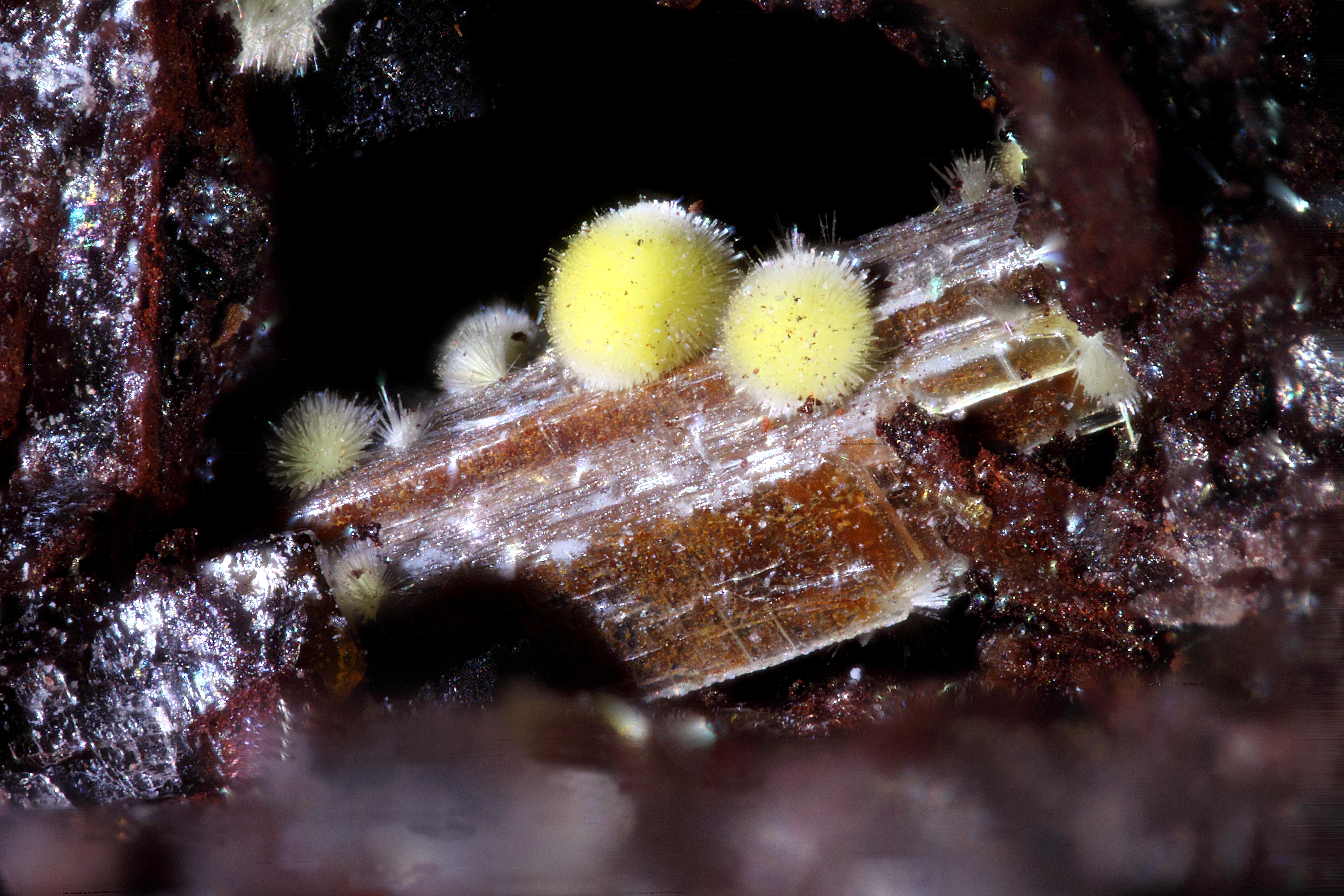 Brown arsenuranospathite with yellow acicular uranophane-alpha from Grube Krunkelbach (Krunkelbach Mine), Menzenschwand, Germany (Field of view: 4.6 mm)